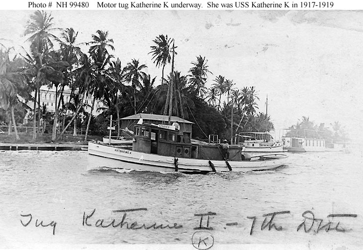 tug Katherine K. in Florida waters prior to her United States Navy service as USS Katherine K. (SP-220)